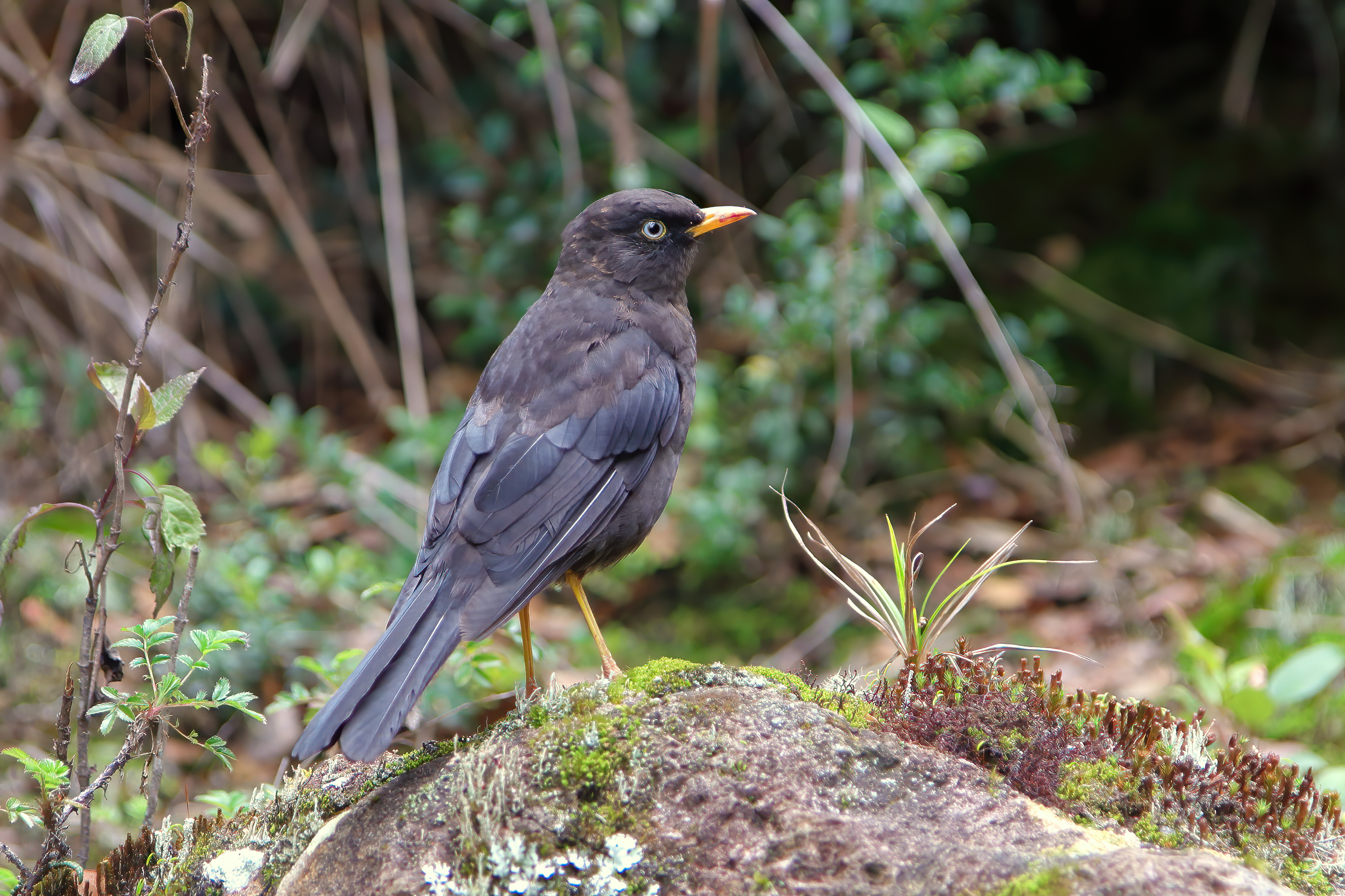 Sooty thrush, Parque Nacional Chirripo, Costa Rica.